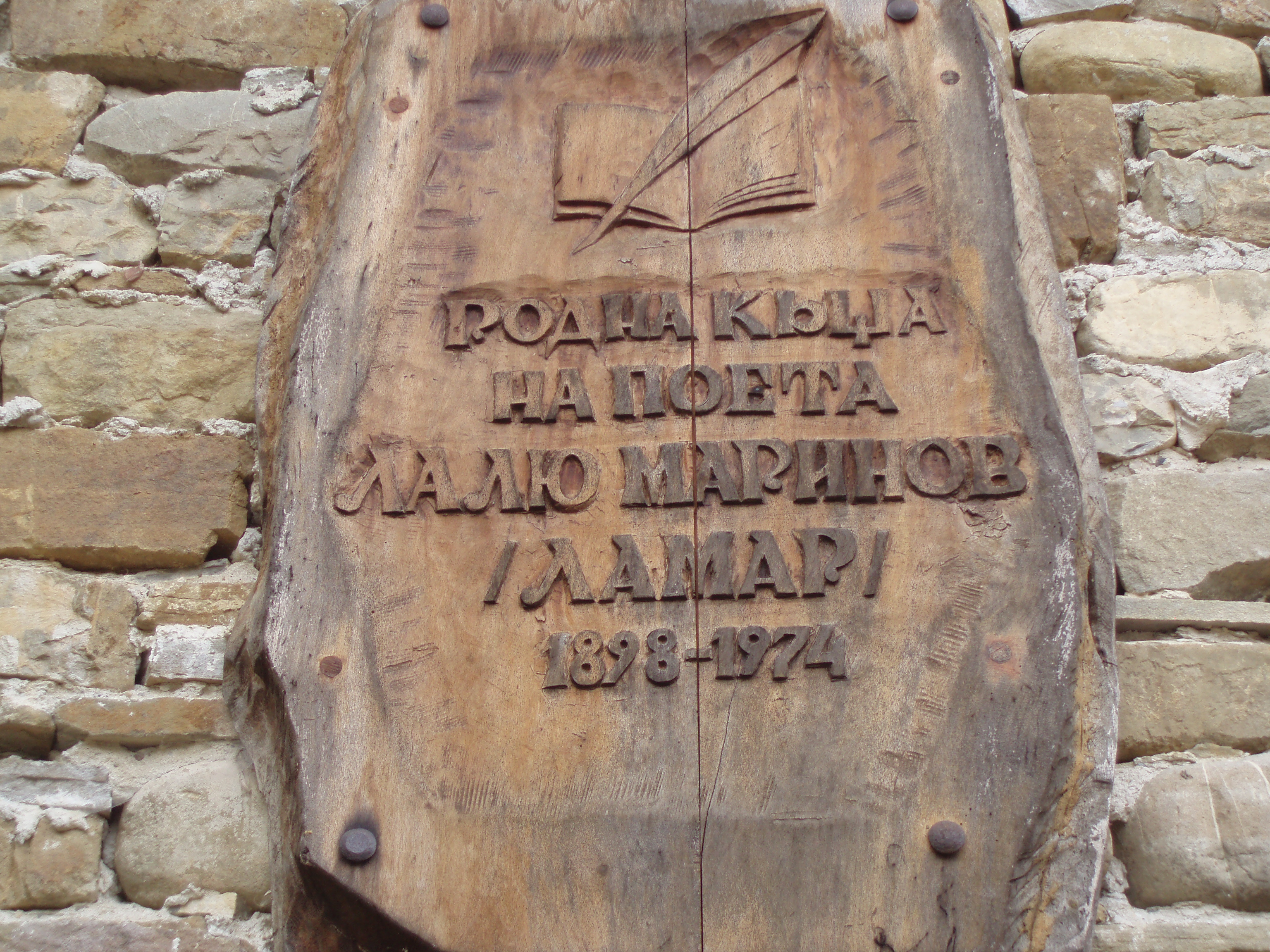 Memorial plaques on the House of Lamar